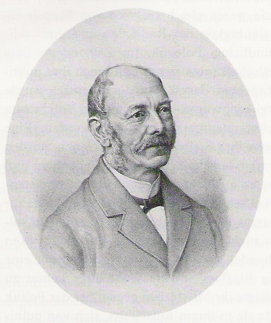 Image of Rudolf Otto von Büren (1822 - 1888), Mayor of the City of Bern from 1864 to 1888